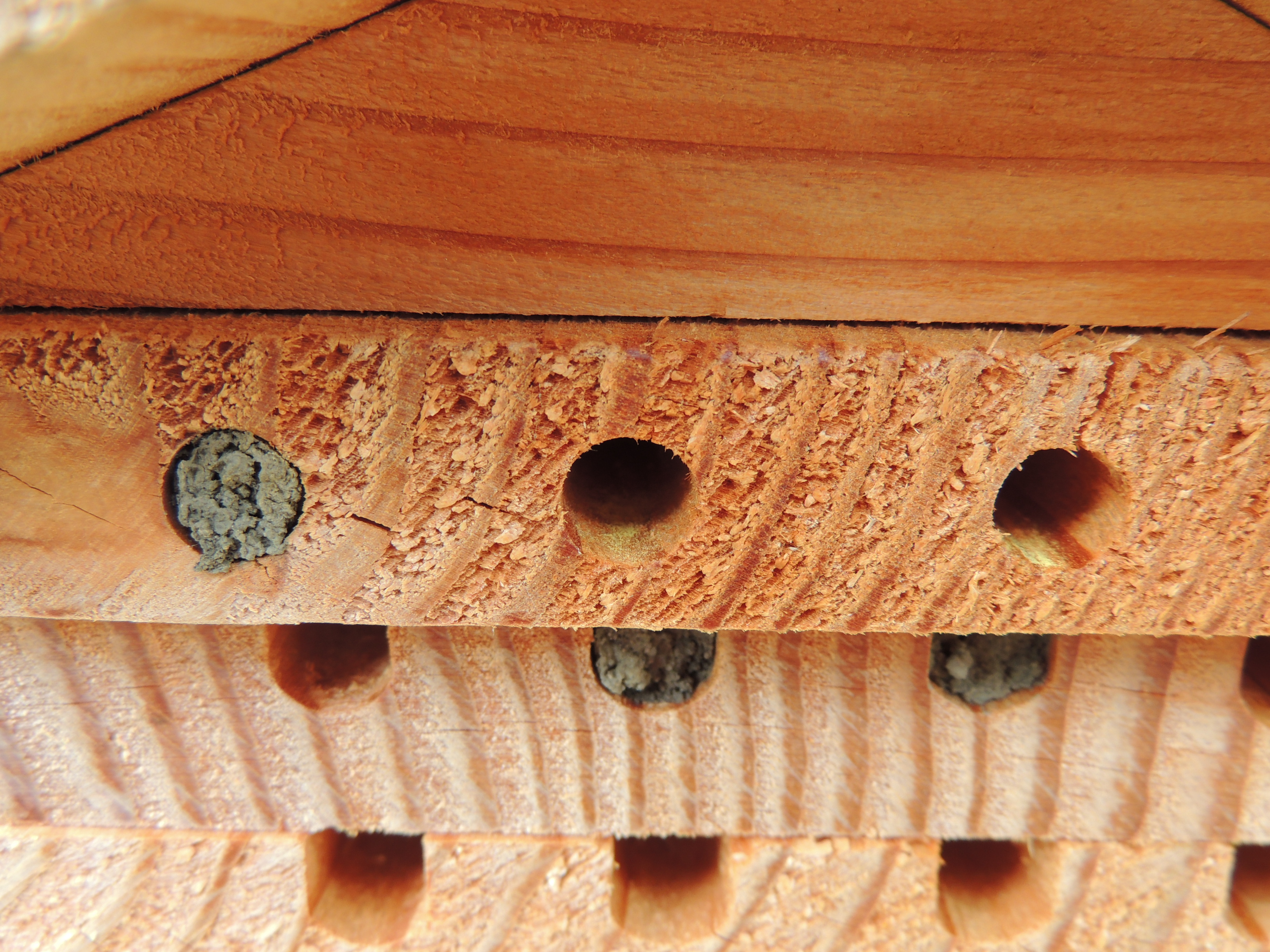 Three of the holes have been filled up by the mason bees (Osmia bicornis). The other two round holes in the top row have traces of yellow from the pollen on the scopa underneath the bees' abdomen.